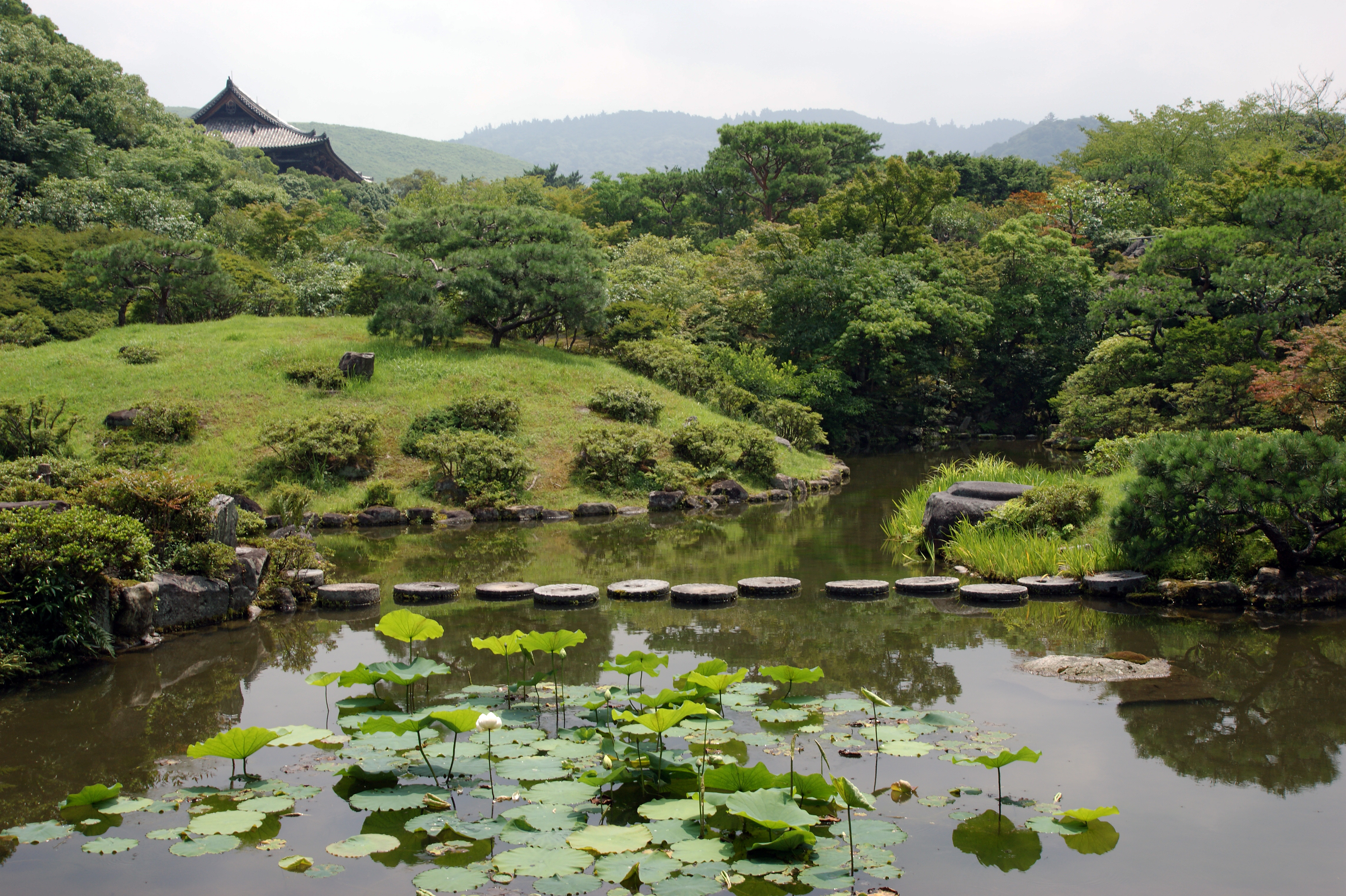 Isuien in Nara, Nara prefecture, Japan